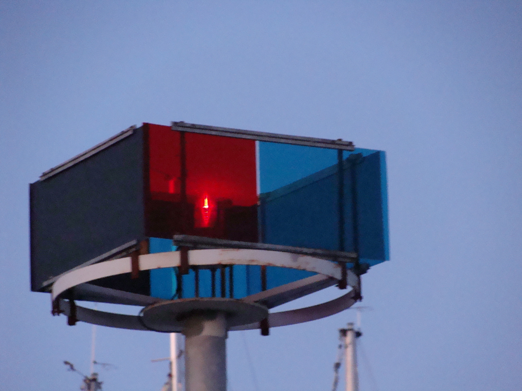 This sector light displays a narrow white light sector to the fairway leading to Pakkahuone guest harbour in Uusikaupunki municipality in Finland.